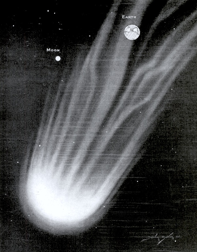 Contemporary artist's concept of the Pons Winnecke comet.